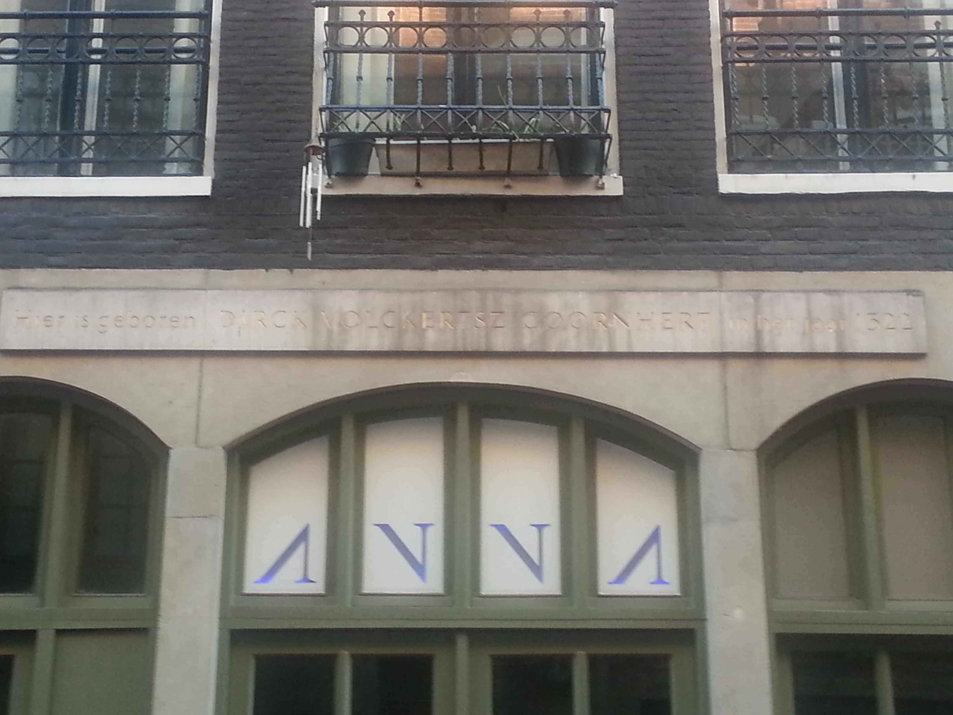 Sign on Warmoesstraat 111 in remembrance of coornhert birthhouse